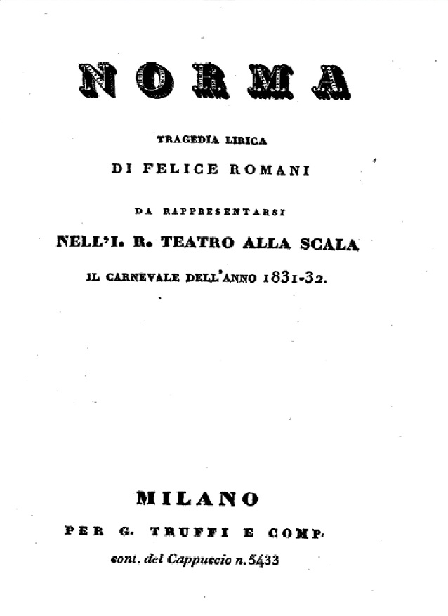 Title page of the original libretto of Norma by Vincenzo Bellini